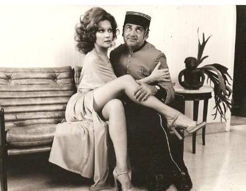 Ethel Rojo y Mario Sánchez-actores argentinos